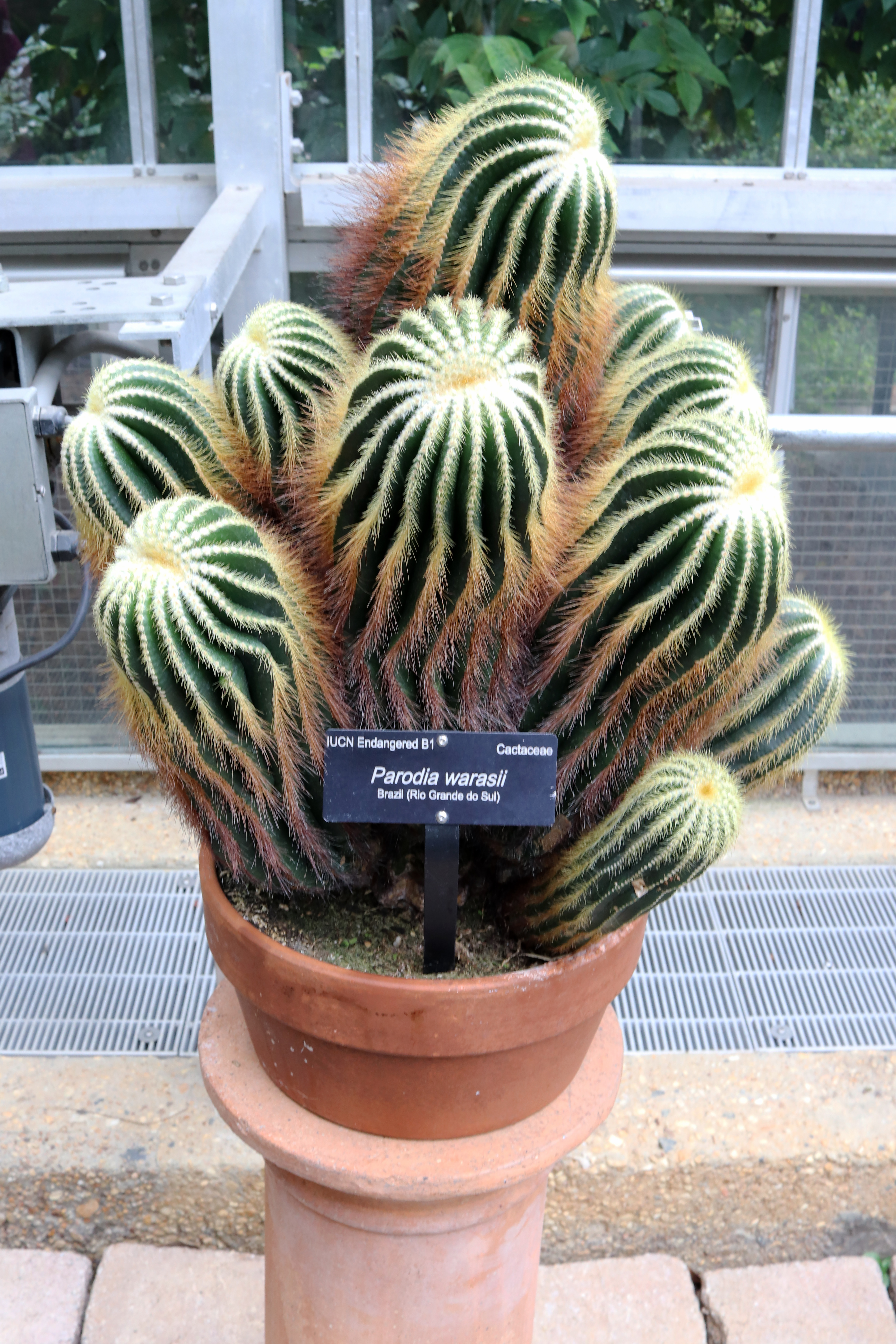 Parodia warasii at the United States Botanic Garden on October 6, 2018.